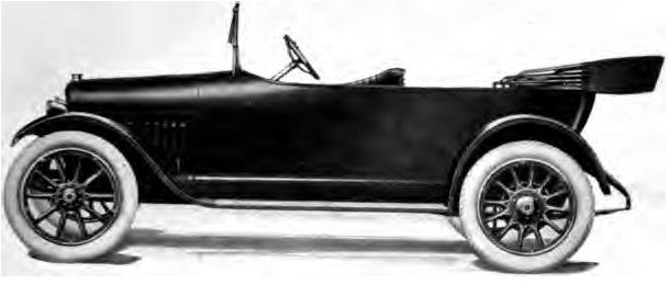 Image is of a 1916 Allen Automobile. It comes from the Automobile Year Book (1916) published by the Automobile department of McClure's magazine, The McClure Publications , inc. The scanned book is part of the Internet Archive collection. The notes at this site describe the source as: Book digitized by Google from the library of the University of Michigan and uploaded to the Internet Archive by user tpb.